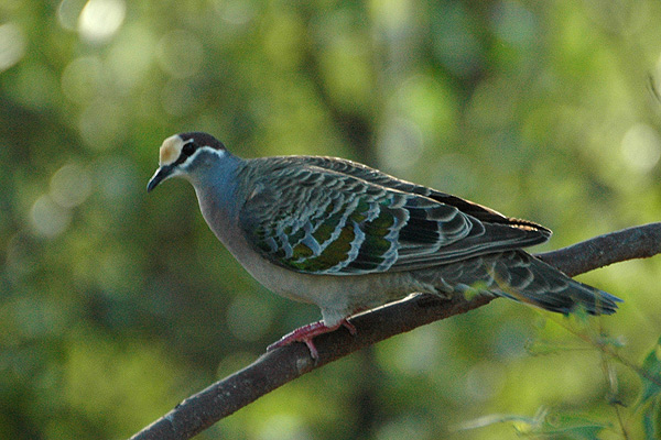 Male Common Bronzewing (Phaps chalcoptera)